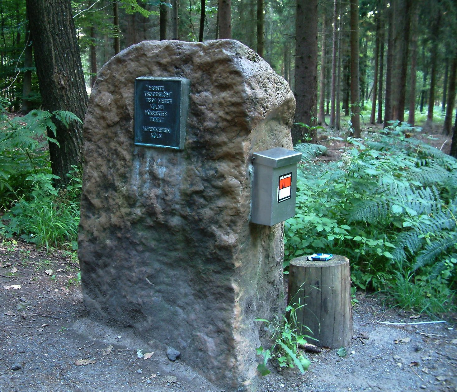 Monte Troodelöh, highest point (118,04m) within the borders of City Cologne.